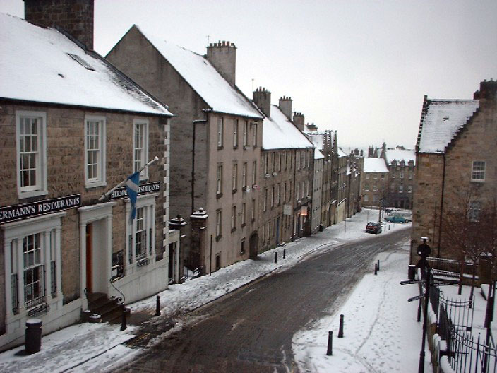 The centre of the Old Town in the city of Stirling, Scotland. This is Broad Street, photographed by me on a rare snowy day, in January 2002. The photo was taken above street level, standing in a window of Mar's Wark, a sixteenth century palace of which only a few rooms and the facade remain. The Scottish Saltire is flying on the left of the picture.